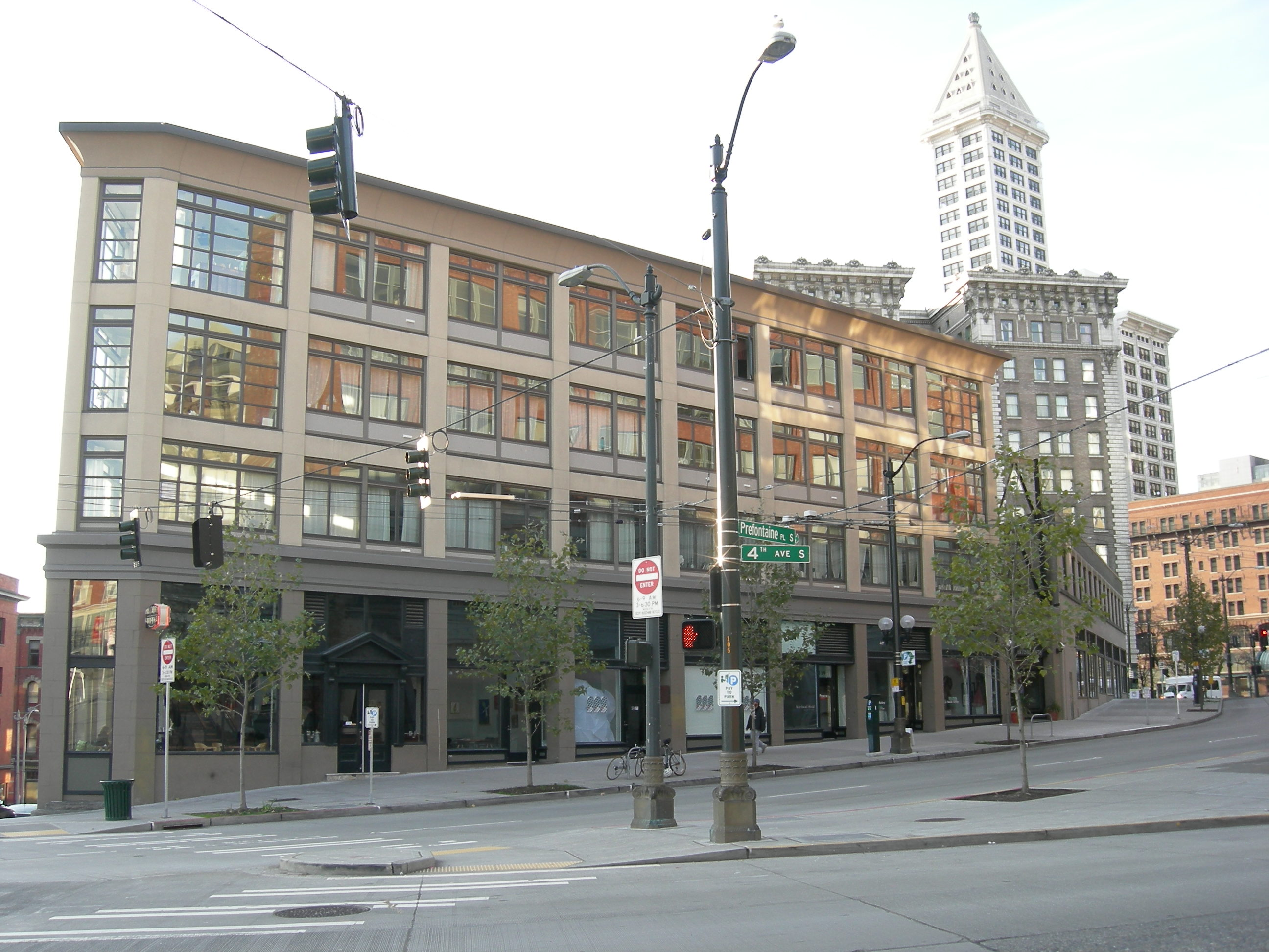 Southeast corner of Tashiro-Kaplan Building, Pioneer Square, Seattle, Washington. The Tashiro-Kaplan Building has one of the area's highest concentrations of galleries and artists' studios. Behind can be seen the Frye Apartments (formerly Frye Hotel), Smith Tower, and Morrison Hotel.